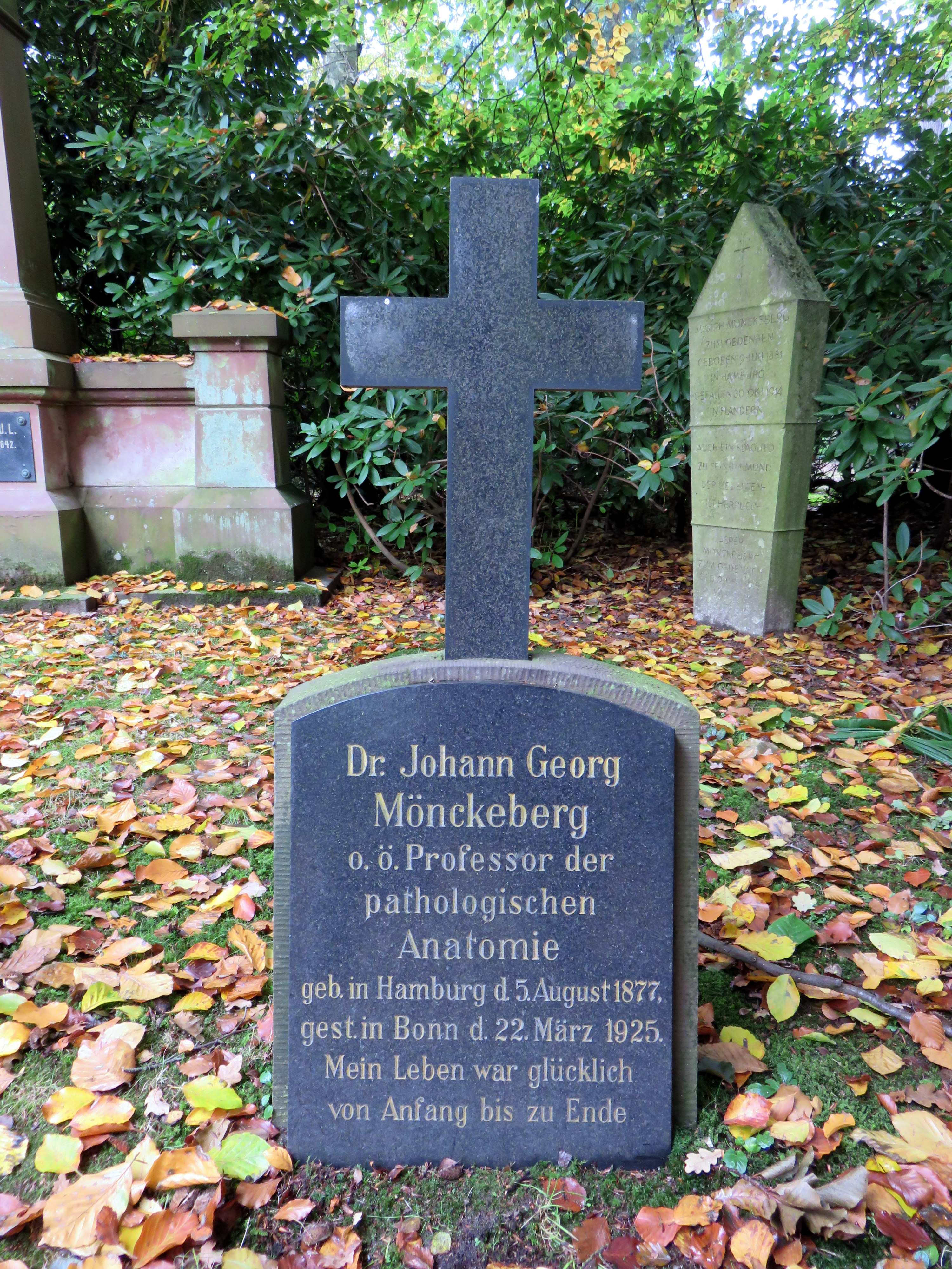 Gravestone for German pathologist Johann Georg Mönckeberg (Pathologe), grave area of Mönckeberg family, Hamburg Cemetery Ohlsdorf.